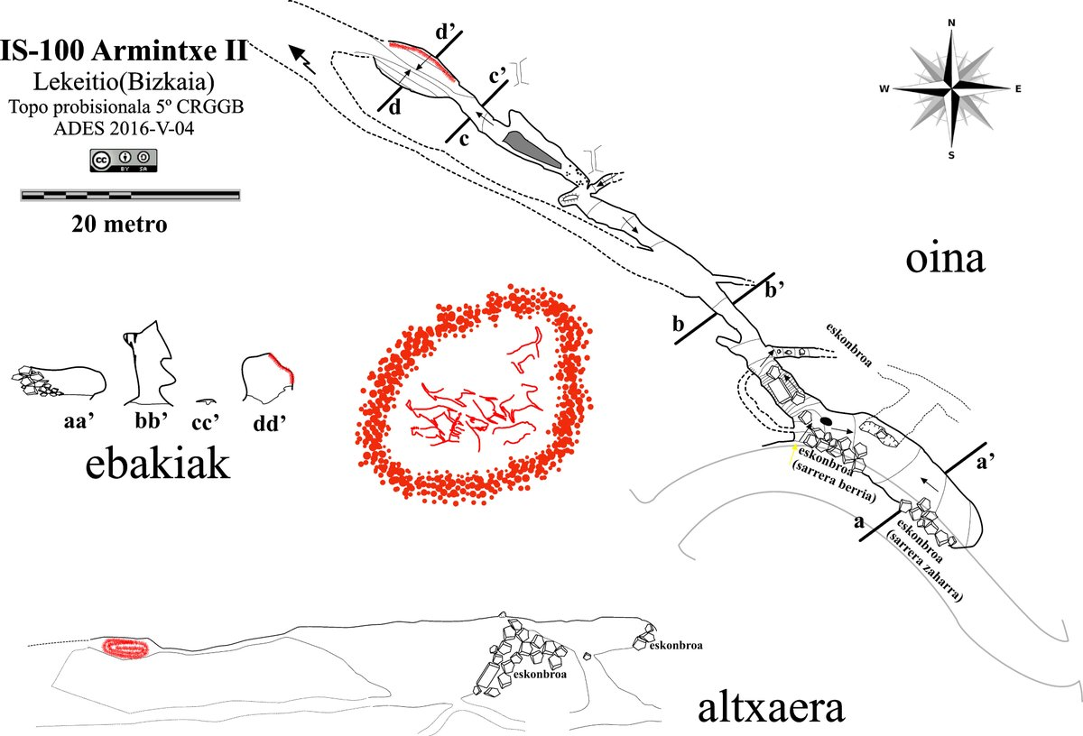 Speolologic map of Armintxe II cave, with wall art depicted